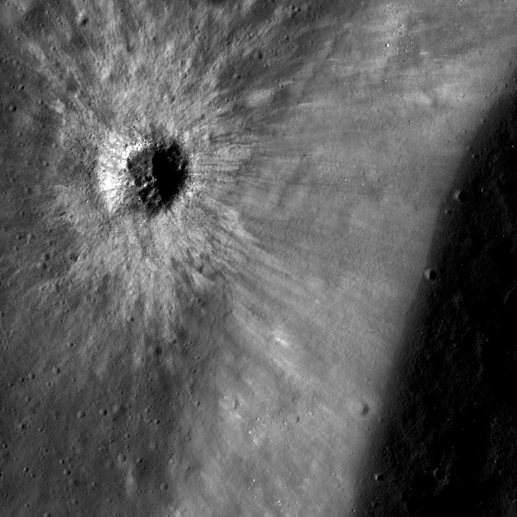 LRO sees a young crater on the Moon - A fresh crater splashes brighter material across the edge of a fracture in Komarov crater in this image from the Narrow Angle Camera (NAC) on board NASA's Lunar Reconnaissance Orbiter (LRO) spacecraft. This small crater, about 475 meters or yards across, is younger than the fracture because the bright rays of the crater are not visibly deformed by the edges of the fracture. Cratering events like this help to slowly erode and fill in fractures and older craters on the moon.